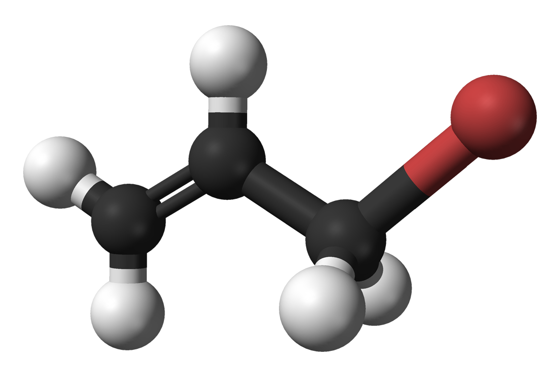 Ball and stick model of the allyl bromide molecule.